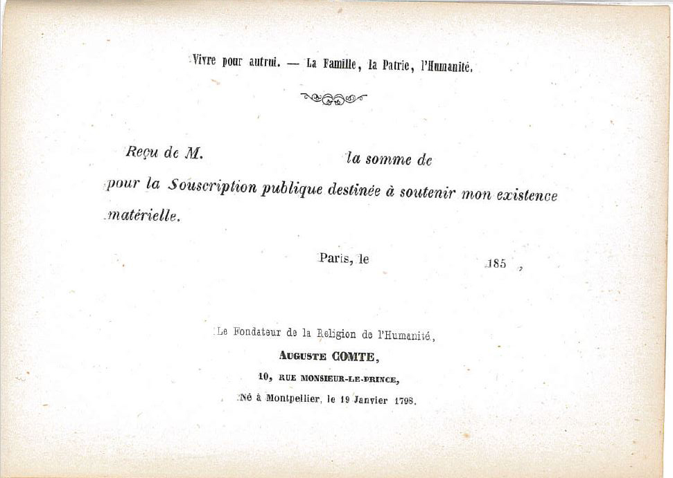 printed receipt 135 x 97 mm issued between 1850 and 1857 to support the French Philosopher Auguste Comte. See Olaf Simons, "Crowdfunding Comte" (2016-03-11)